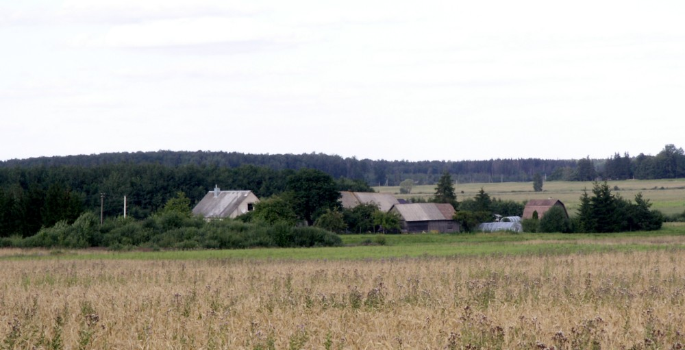 Lingailiai, Šiauliai district, Lithuania